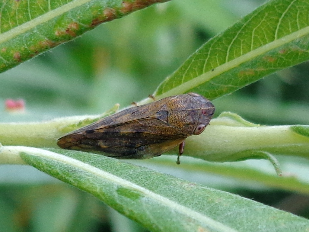 Aphrophora pectoralis. Found in Bērzi village near Bauska city, Latvia